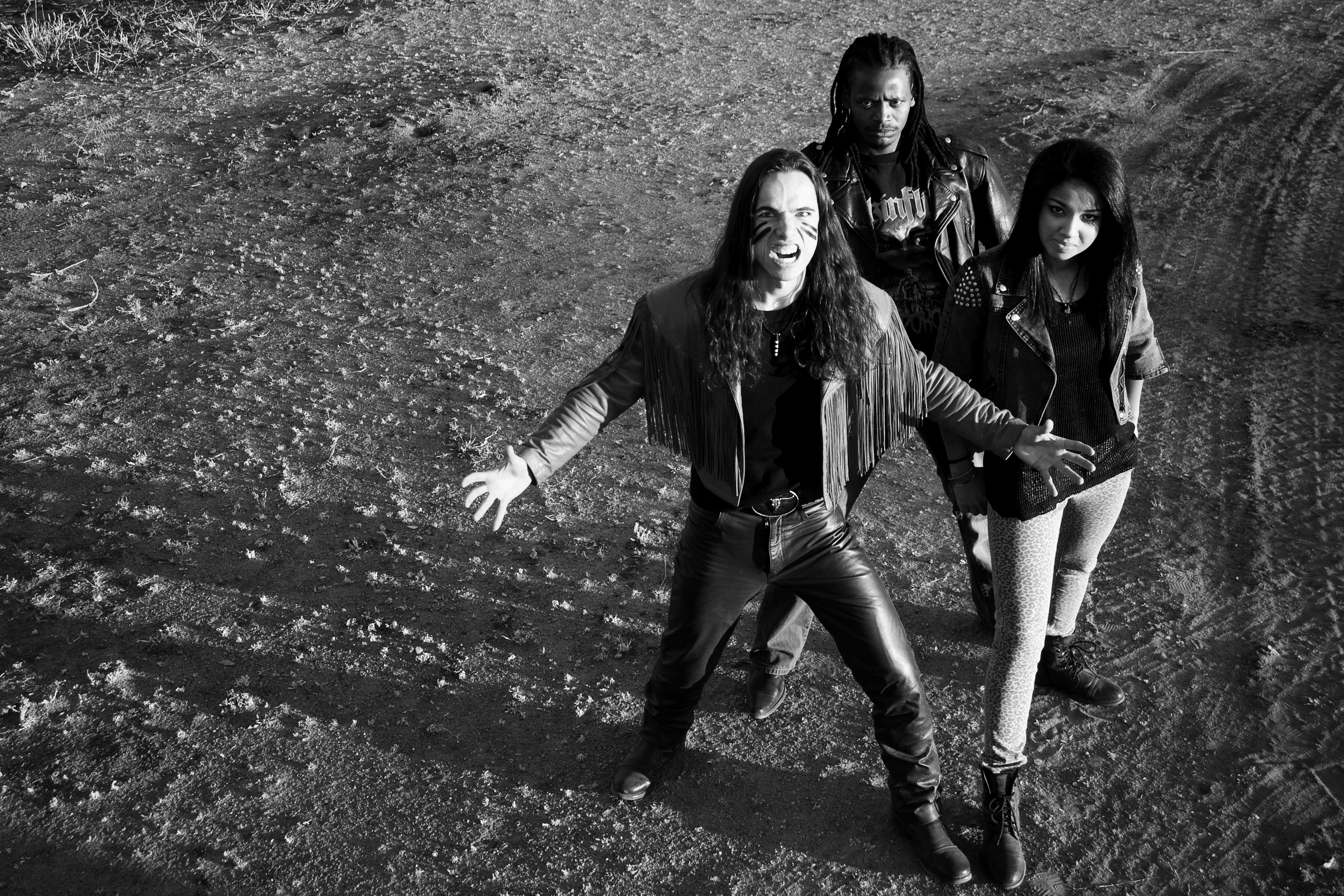 Left to right: Giuseppe Sbrana, Kebonye Nkolso and Alessandra Sbrana